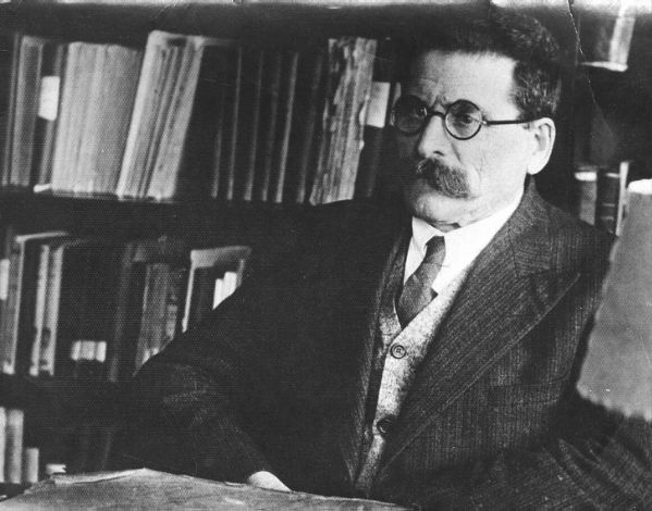 Alter Druyanov at his desk